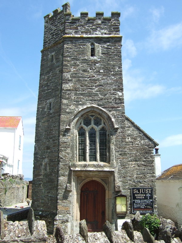 St Just church